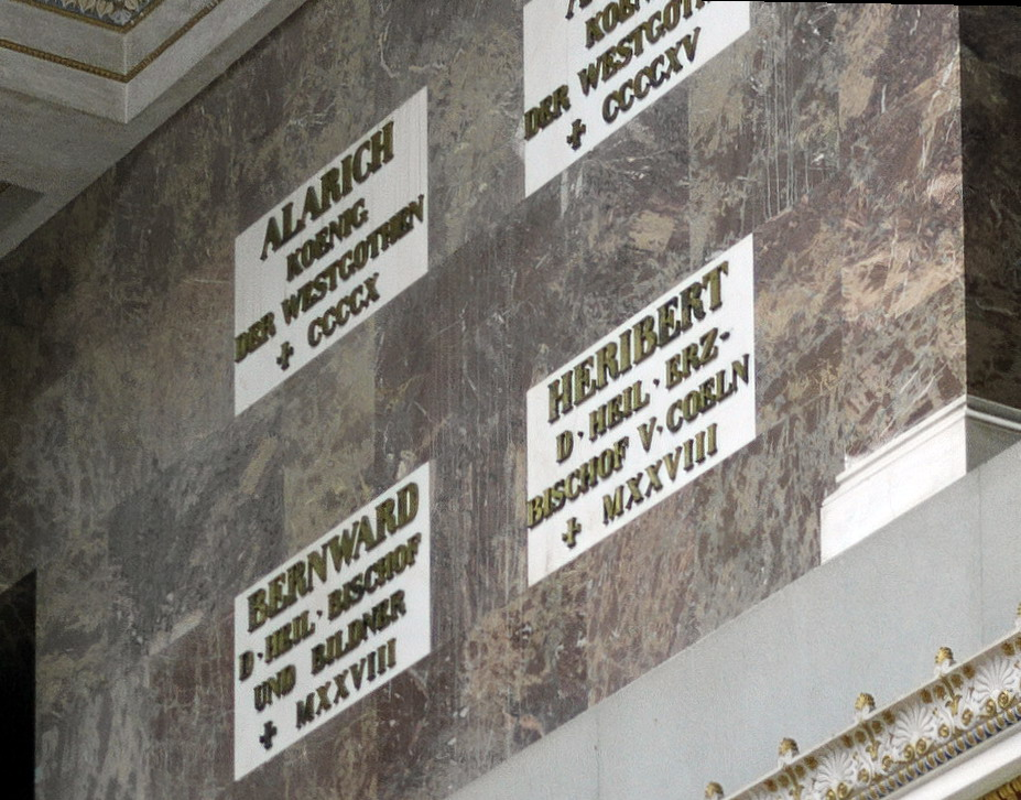 Walhalla, Donaustauf, Bavaria, Germany. Detail of a wall with plaques for Alarich, Bernward and Heribert.